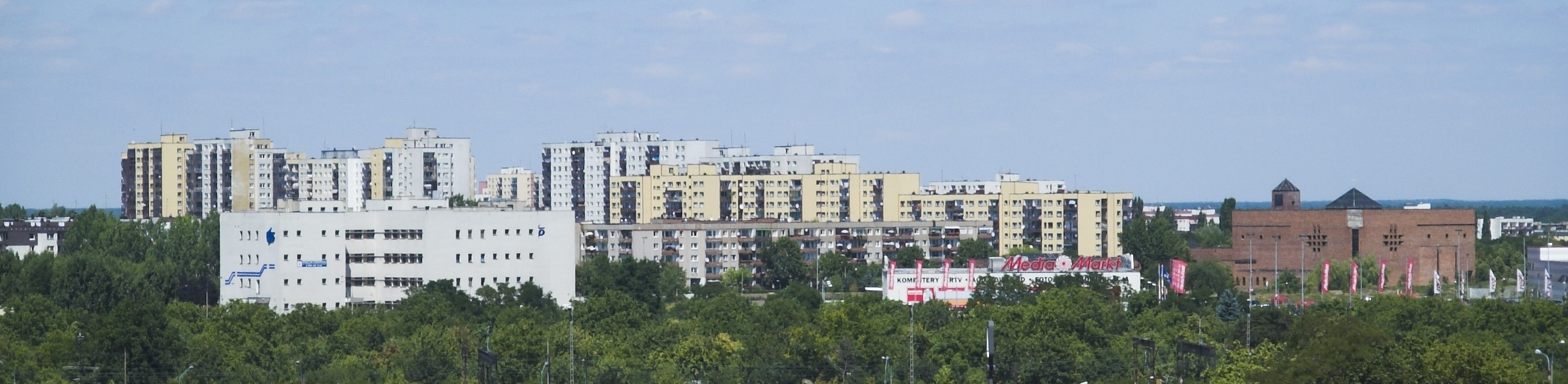 The general view of Opole-ZWM ("old" part), Poland